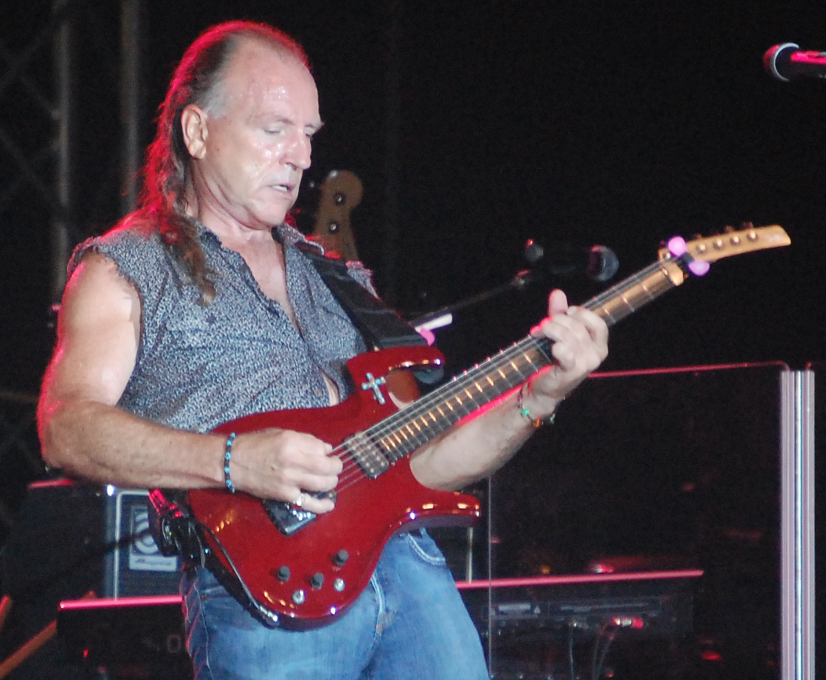 Mark Farner performing at Lawrenceburg, Indiana's Fall Fest on September 26, 2009.